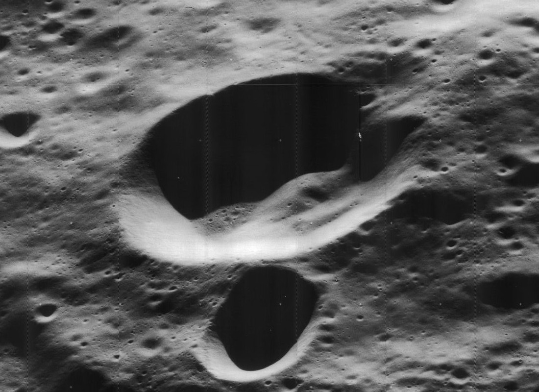 Oblique view of Feoktistov crater, on the far side of the moon, facing west.